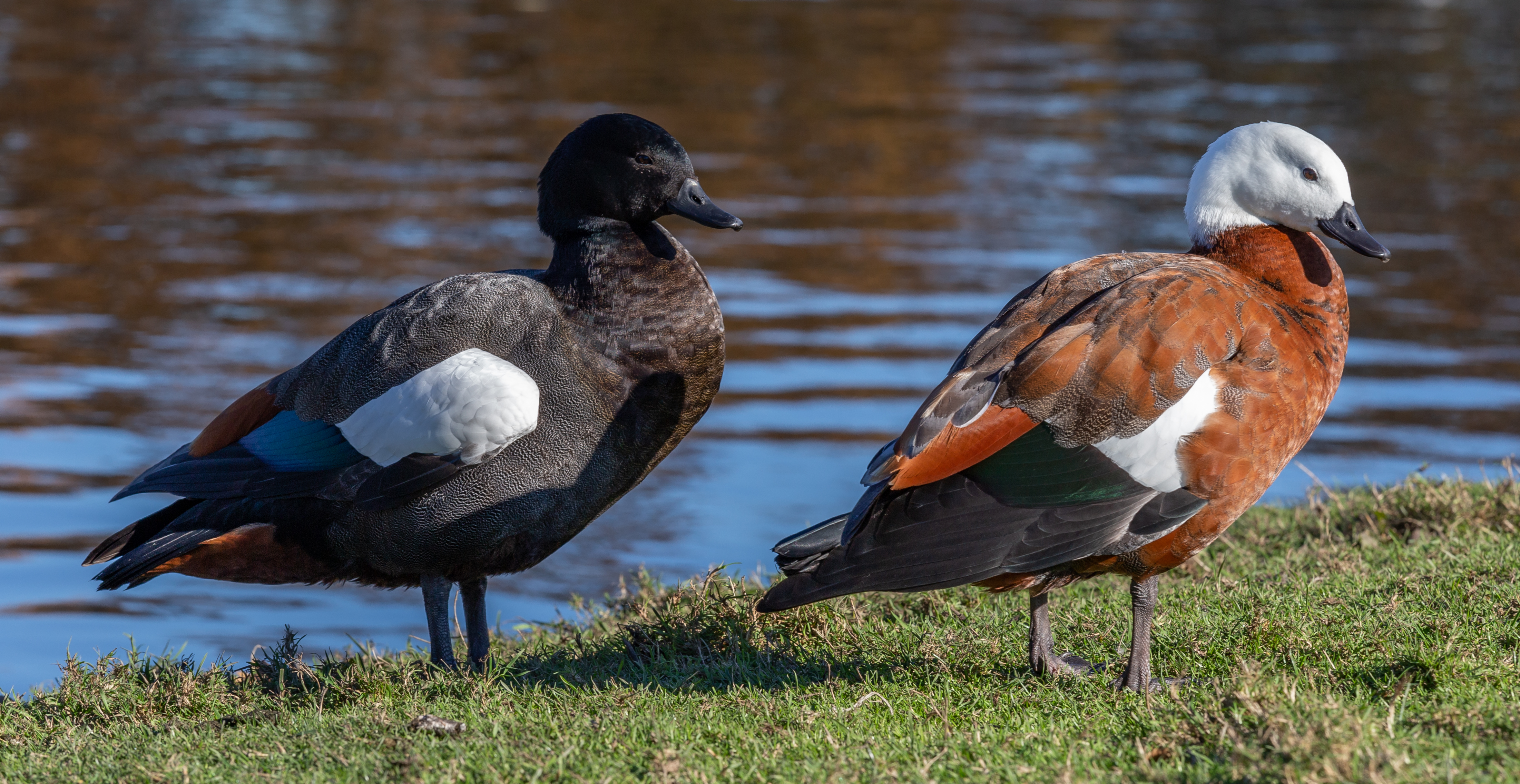 A pair of paradise shelducks, Lake Victoria, Christchurch (male - left; female - right)